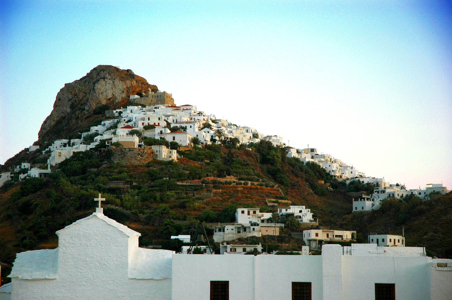 The town of Skyros island, Greece